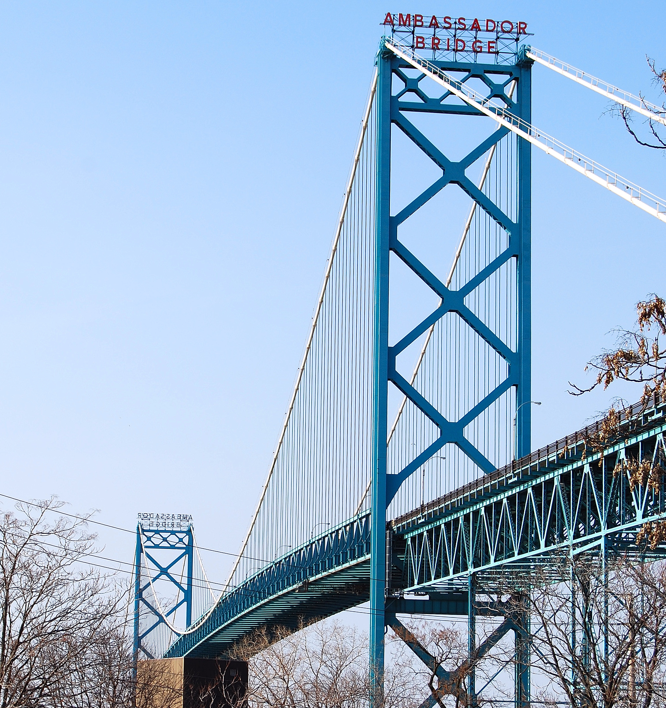 The Ambassador Bridge is a suspension bridge that connects Detroit, Michigan, in the United States, with Windsor, Ontario, in Canada